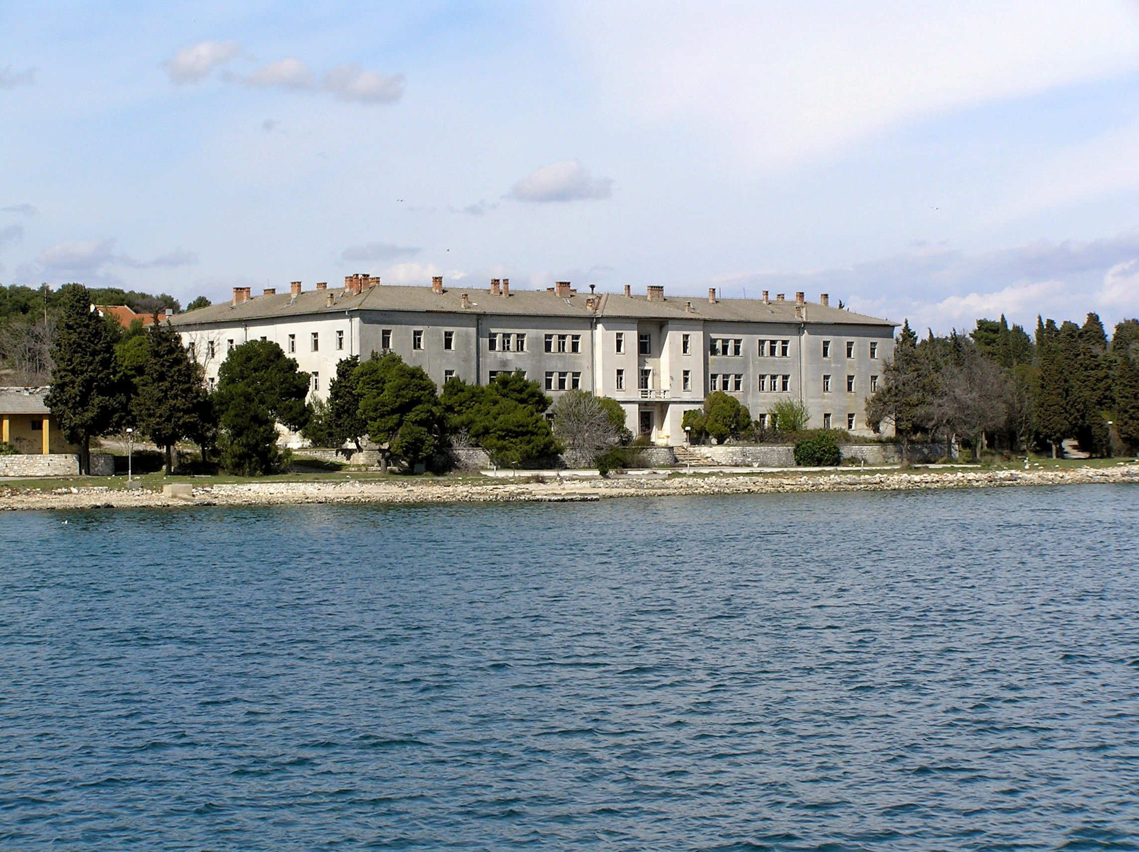 "Monumenti" - Pula, Croatia